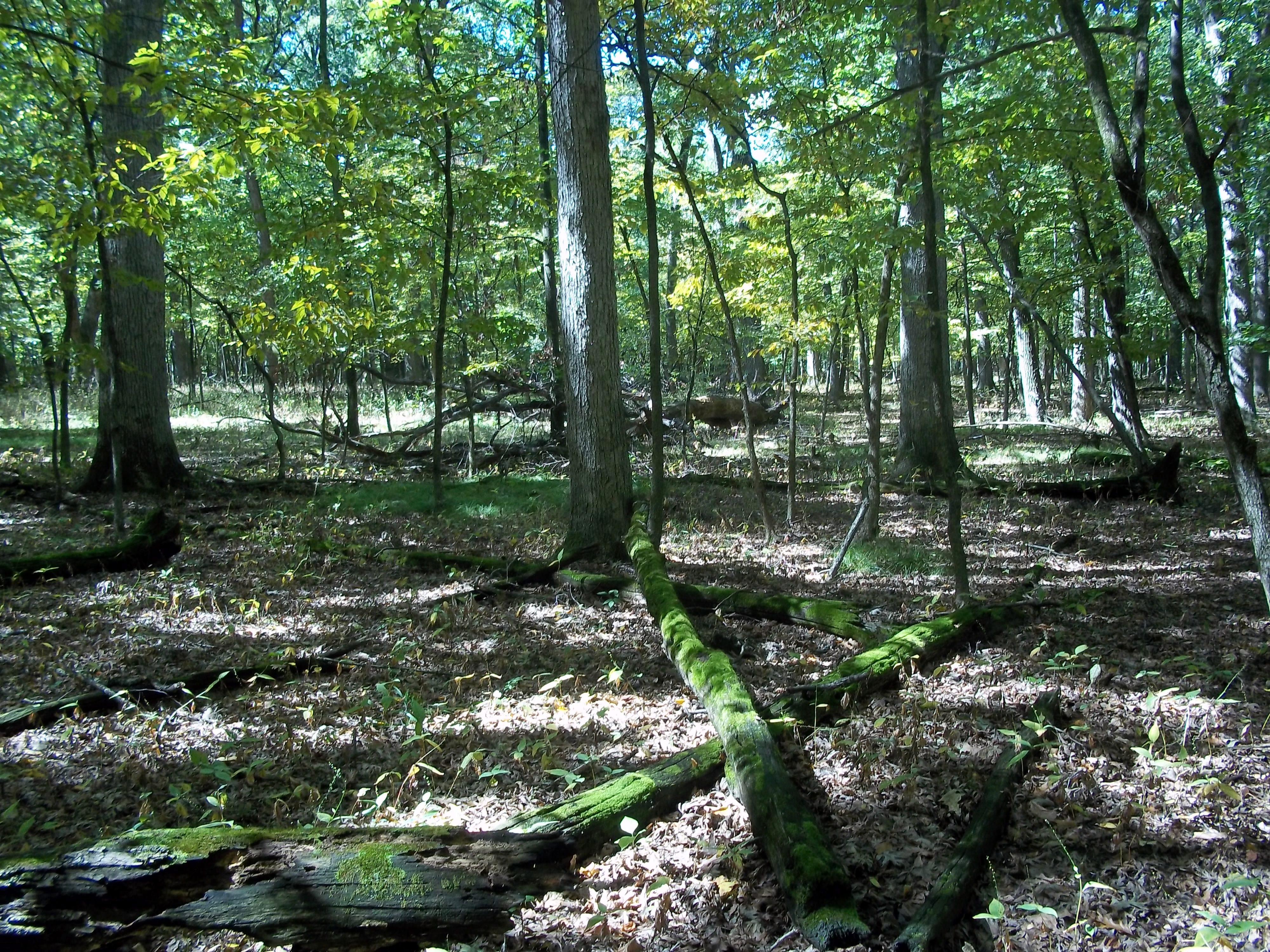 Busse Forest Natural National Landmark - Cook County, Illinois. Located in the Ned Brown Forest Preserve